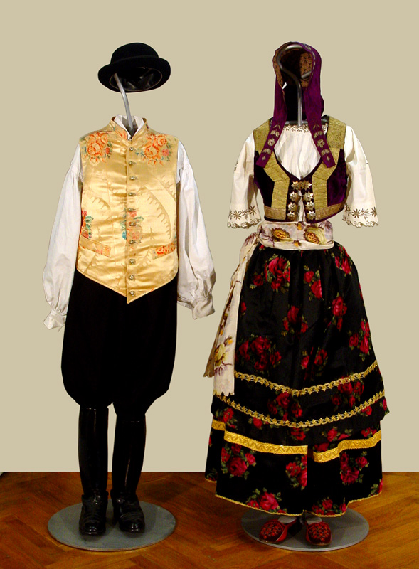 Men's and women's Bunjevci folk costume, Subotica (Vojvodina, Serbia), circa 1900. Srpski (latinica): Muška i ženska bunjevačka nošnja, Subotica (oko 1900).